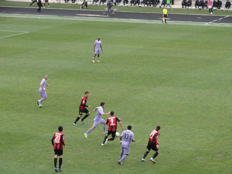 Turkish Super League match: Gençlerbirliği 3-0 Manisaspor